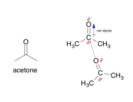 Dipole-dipole interactions between two acetone molecules, with the partially negative oxygen atom interacting with the partially positive carbon atom in the carbonyl.